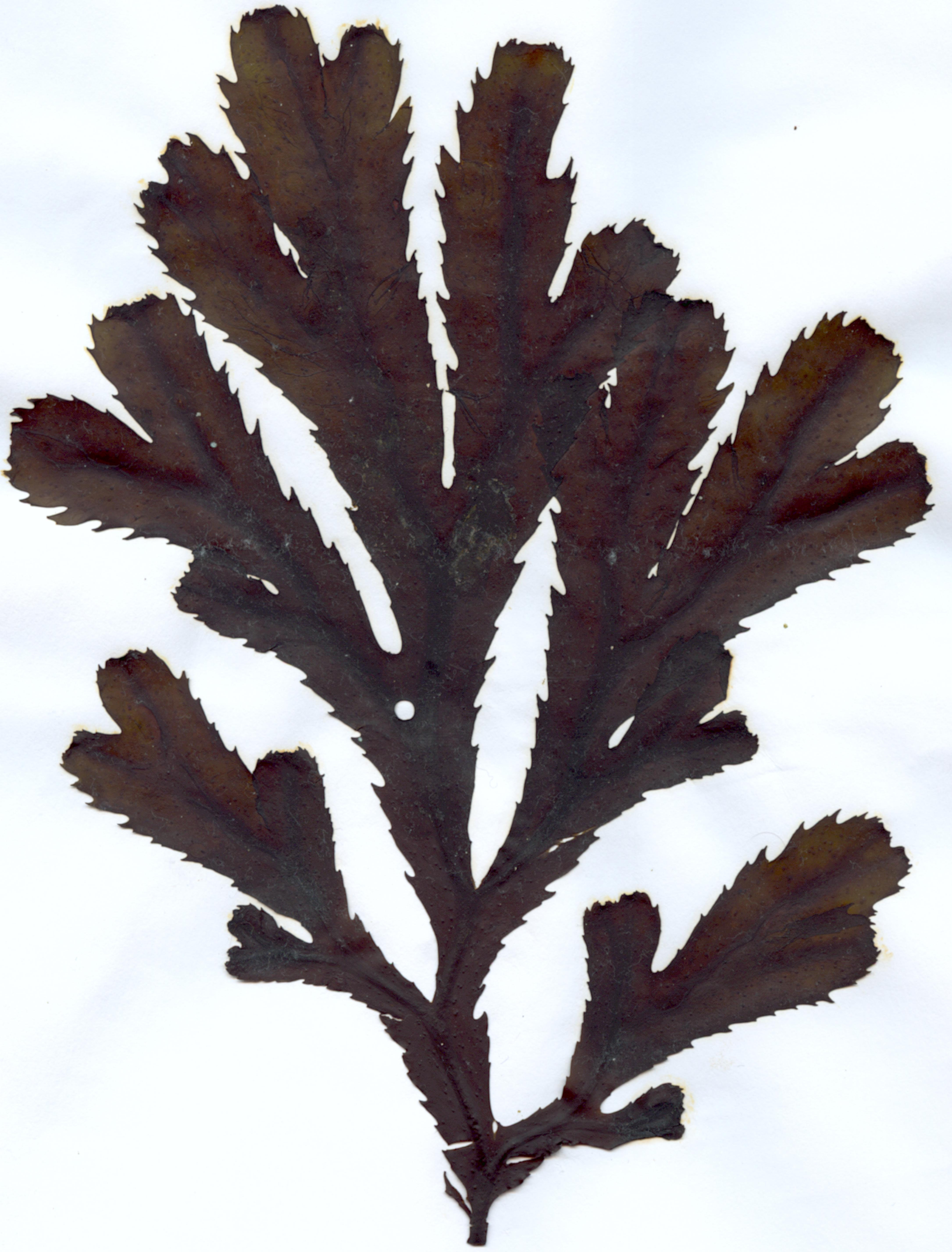 Fucus serratus thallus from the White Sea lower intertidal Таллом Fucus serratus на гербарном листе. Собран на нижней литорали губы Чупа Белого моря.